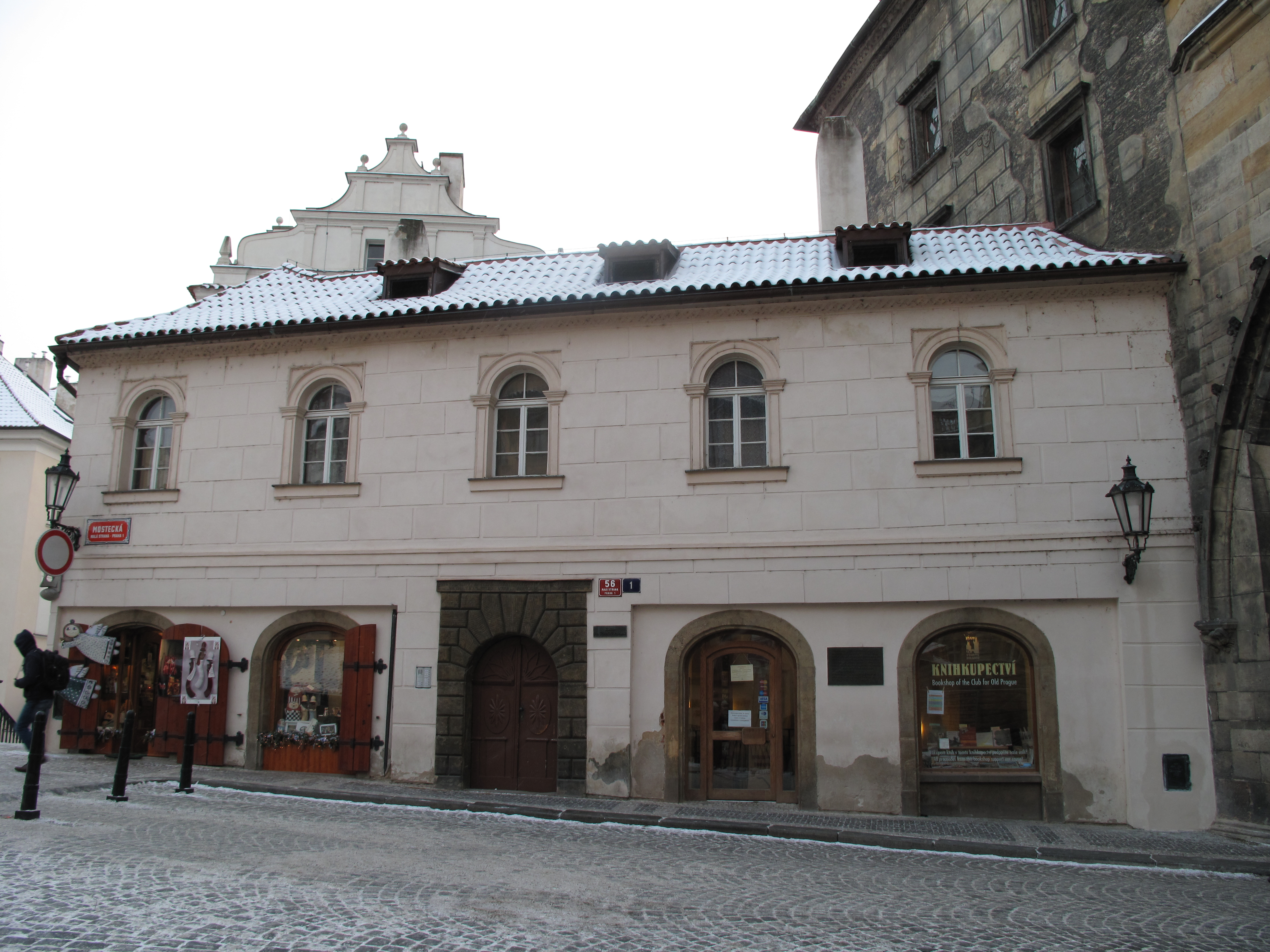 Mostecká Street 1, Prague, Czech Republic. Klub Za starou Prahu headquarters.